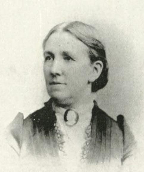 Photo of Elizabeth Powell Bond, ca. 1893